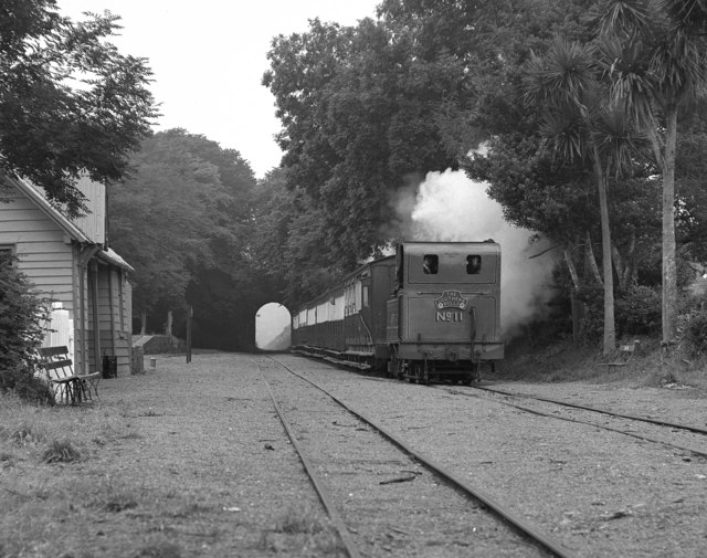 Santon station, Isle of Man Railway Loco. No 11 pauses at Santon with a train for Douglas.